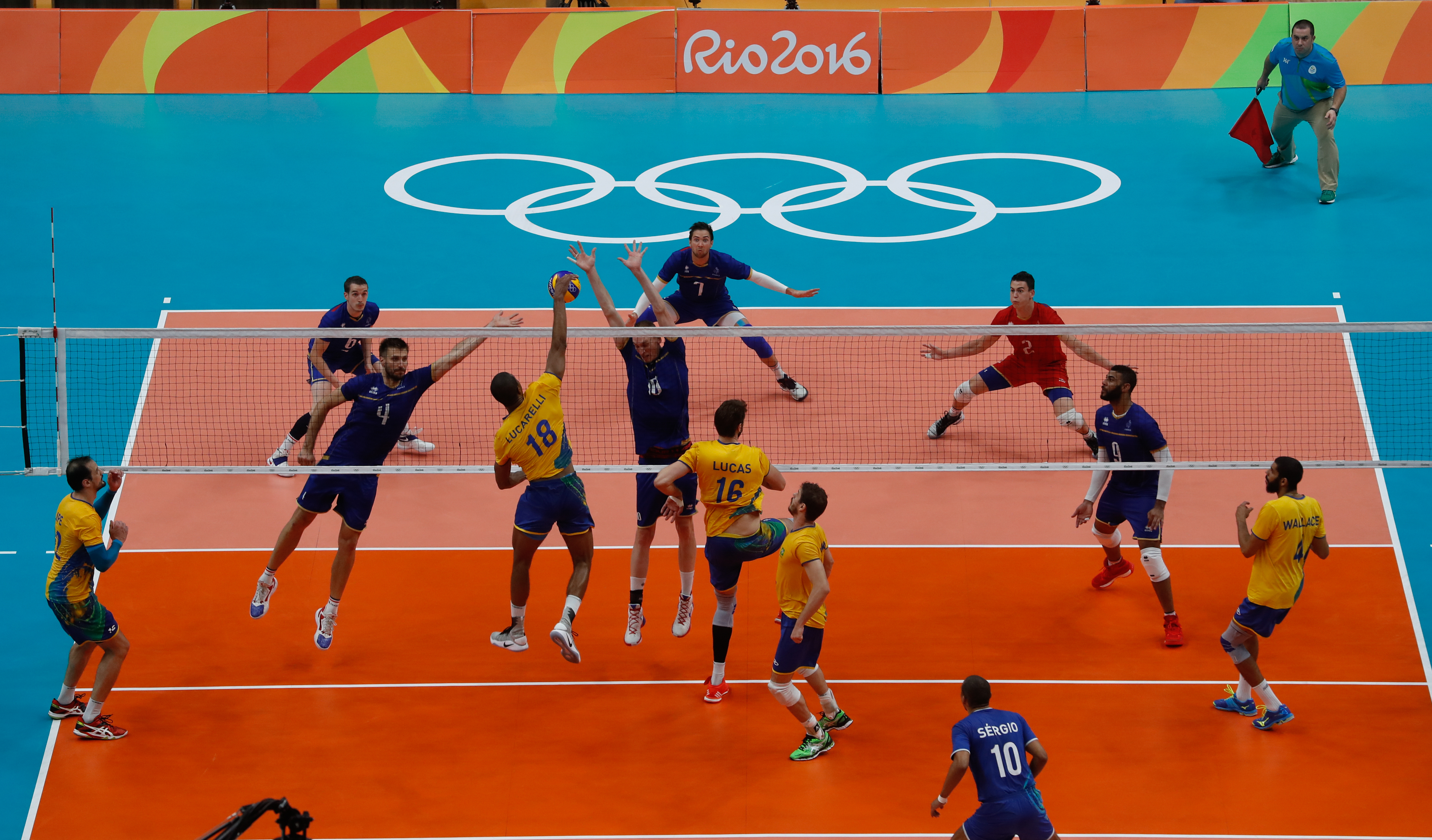 Rio de Janeiro - Seleção brasileira masculina de vôlei vence a da França por 3 sets a 1 no Maracanãzinho e vai às quartas-de-final ( Fernando Frazão/Agência Brasil)